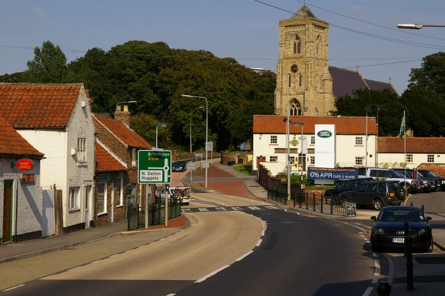 A614 Middleton on the Wolds, East Riding of Yorkshire, England.